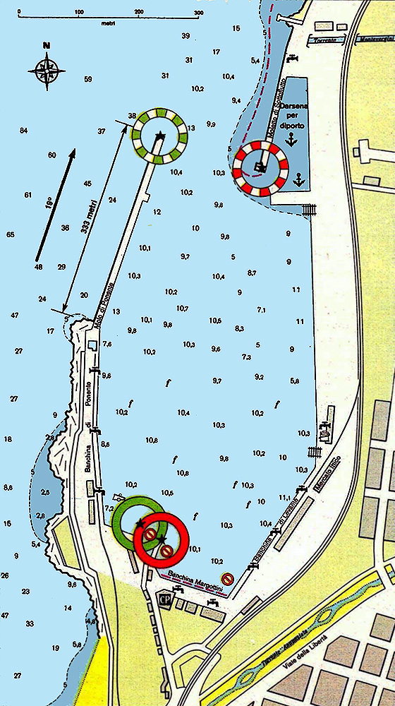 Map of the Reggio Calabria Seaport